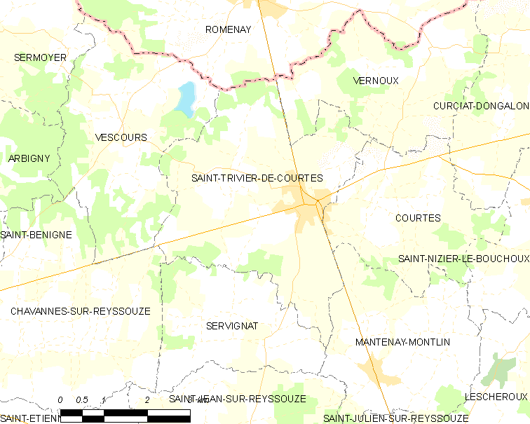 Map of French commune: Saint-Trivier-de-Courtes Map commune FR insee code 01388.png